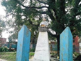 statue of Lakhan Thapa in Palpa